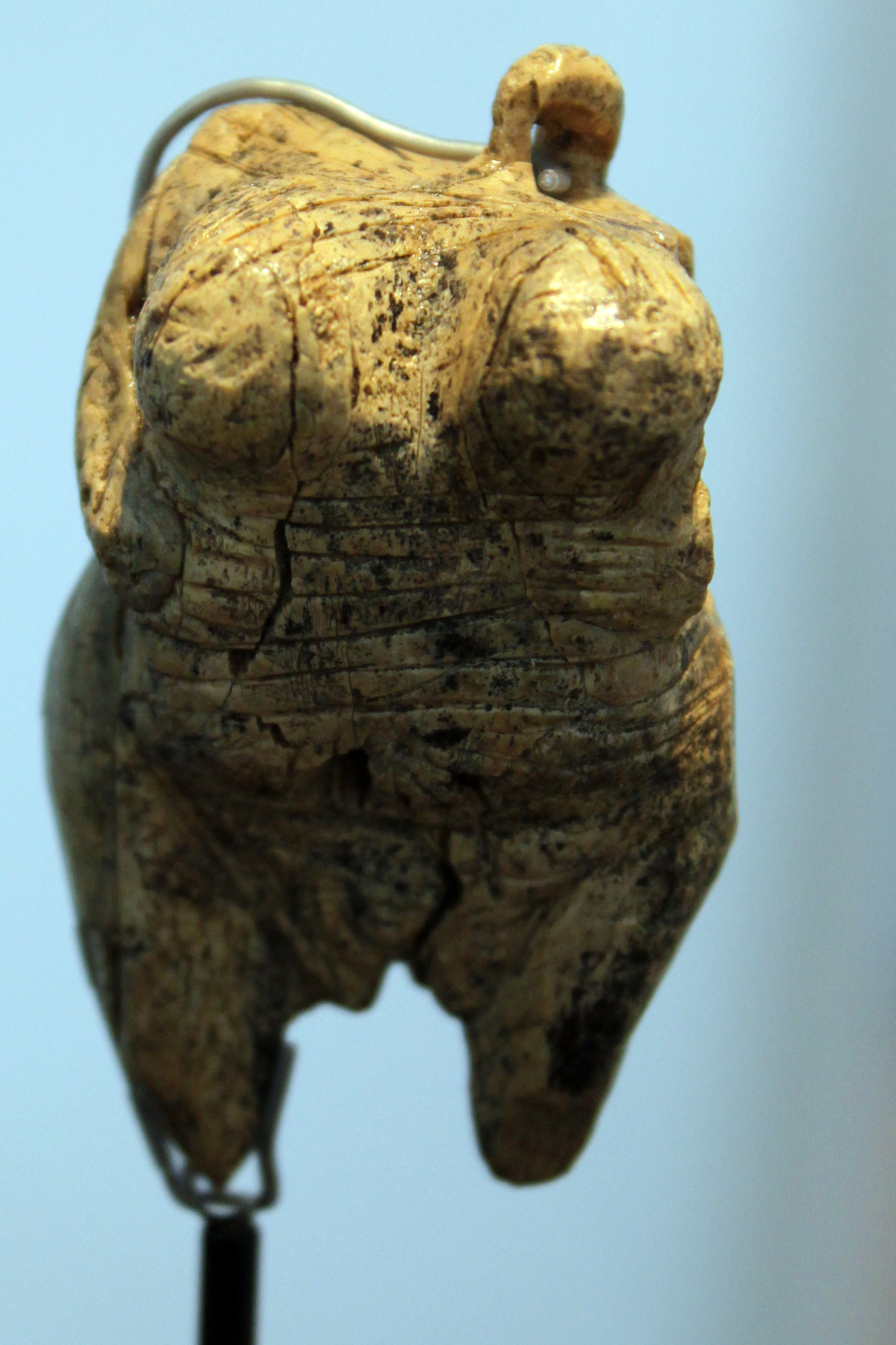 "Venus"-pendant, mammoth ivory, Alb-Donau Region, 35.000 to 40.000 years old, on loan from the National Archaeological Museum in Baden-Württemberg, shown at the Landesmuseum Württemberg, Stuttgart, Germany